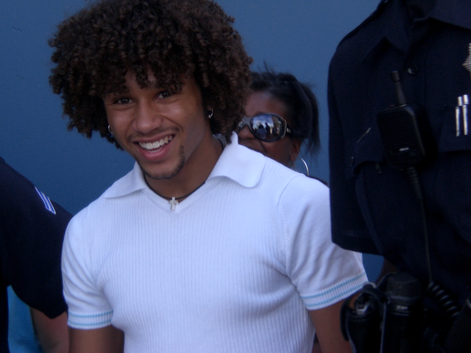 Corbin Bleu in 2006.